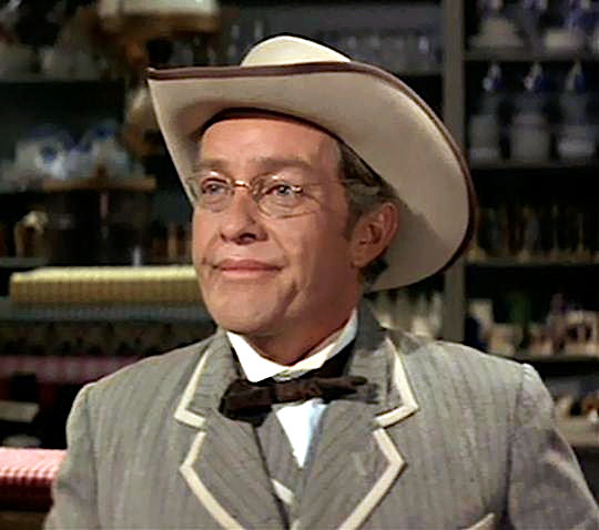 Gordon Jones (left) & Strother Martin in McLintock! (cropped screenshot)